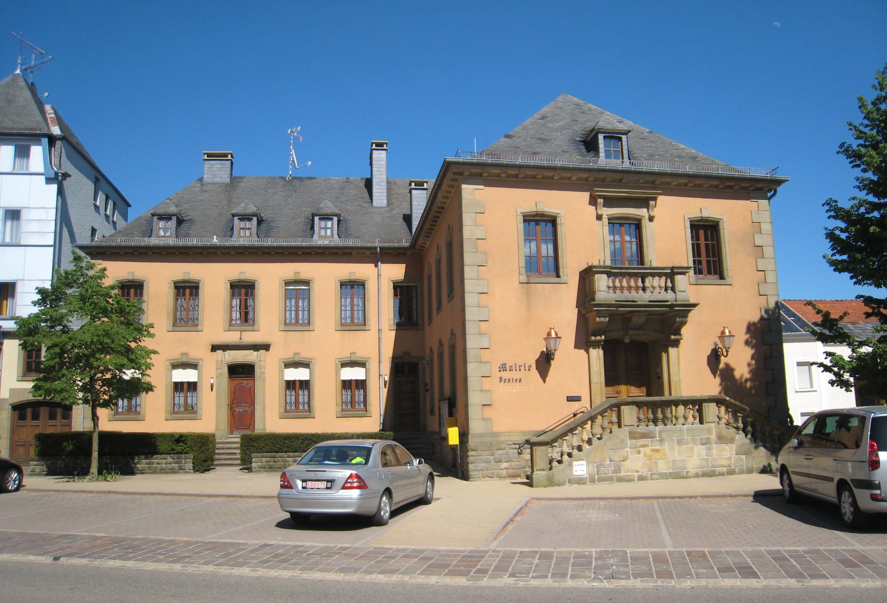 Berdorf town hall